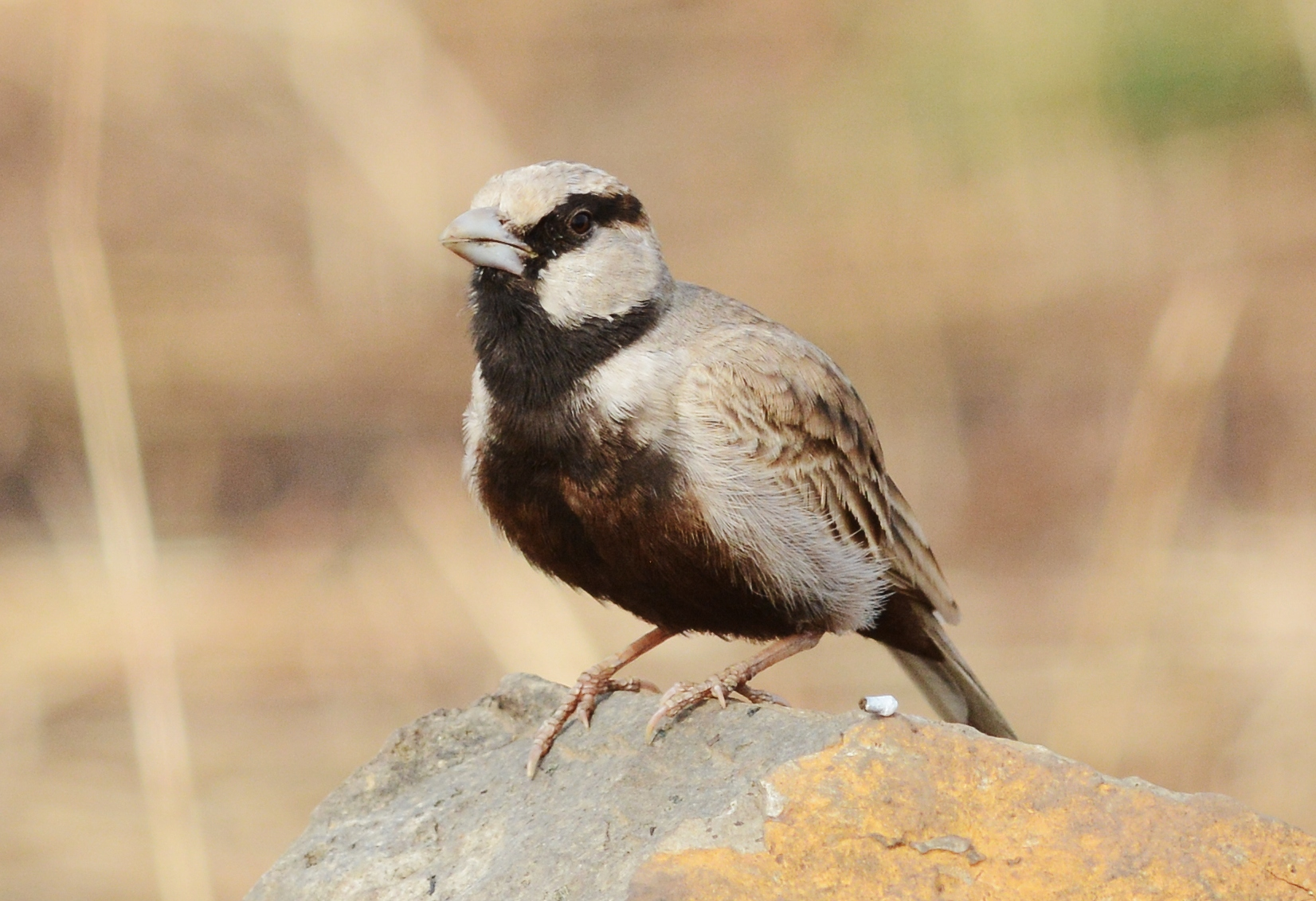 Ashy-crowned Sparrow Lark Eremopterix griseus Male. Photo taken at Dombivli, distt. Thane, Maharashtra, India.